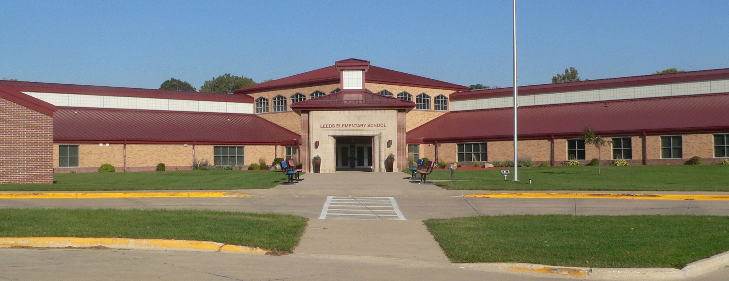 Leeds Elementary School, located at 3919 Jefferson Street in Sioux City, Iowa; seen from the southeast, from Jefferson.